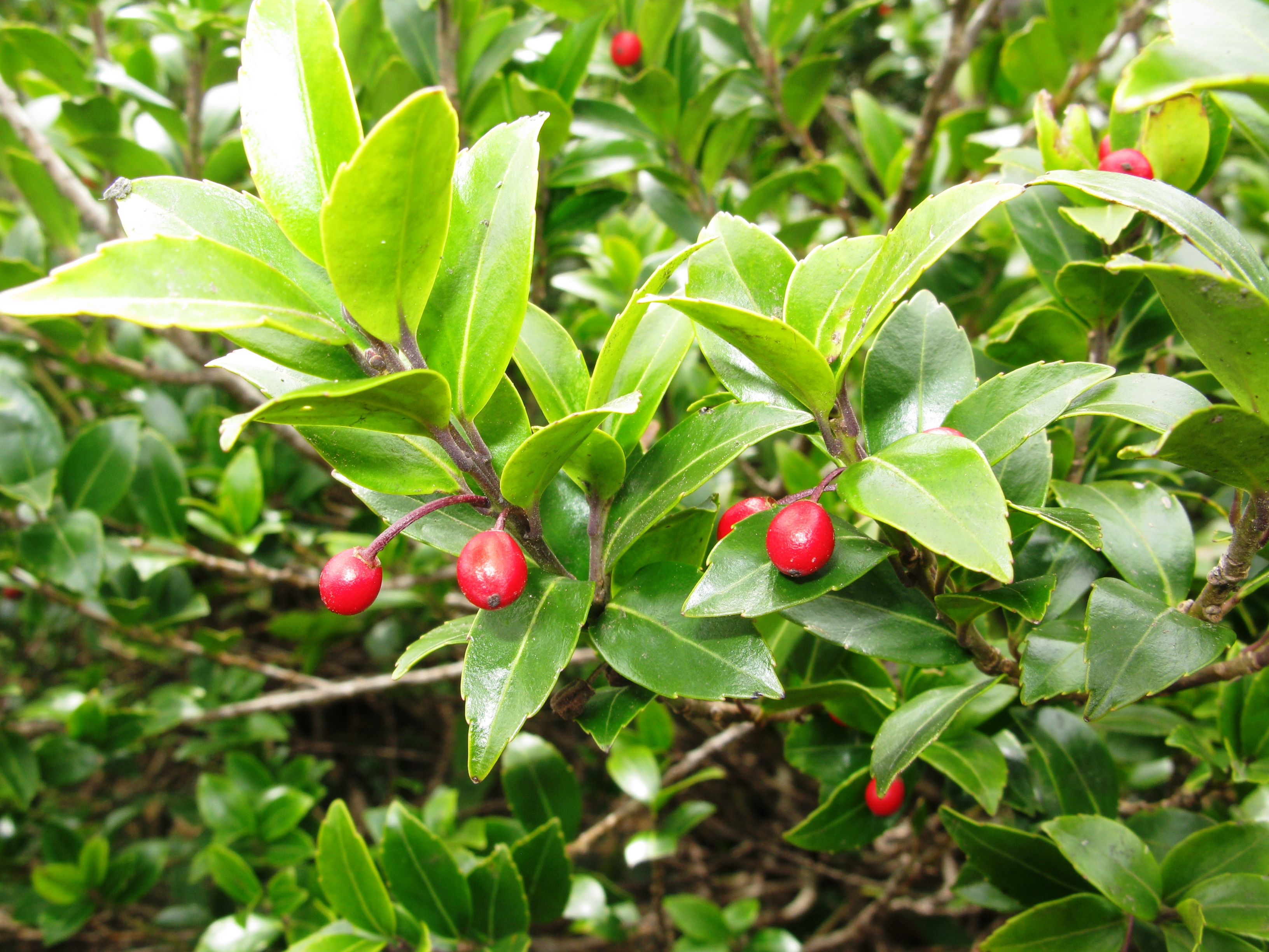 Ilex sugerokii var. brevipedunculata, Mt. Nishiazuma, Fukushima pref., Japan